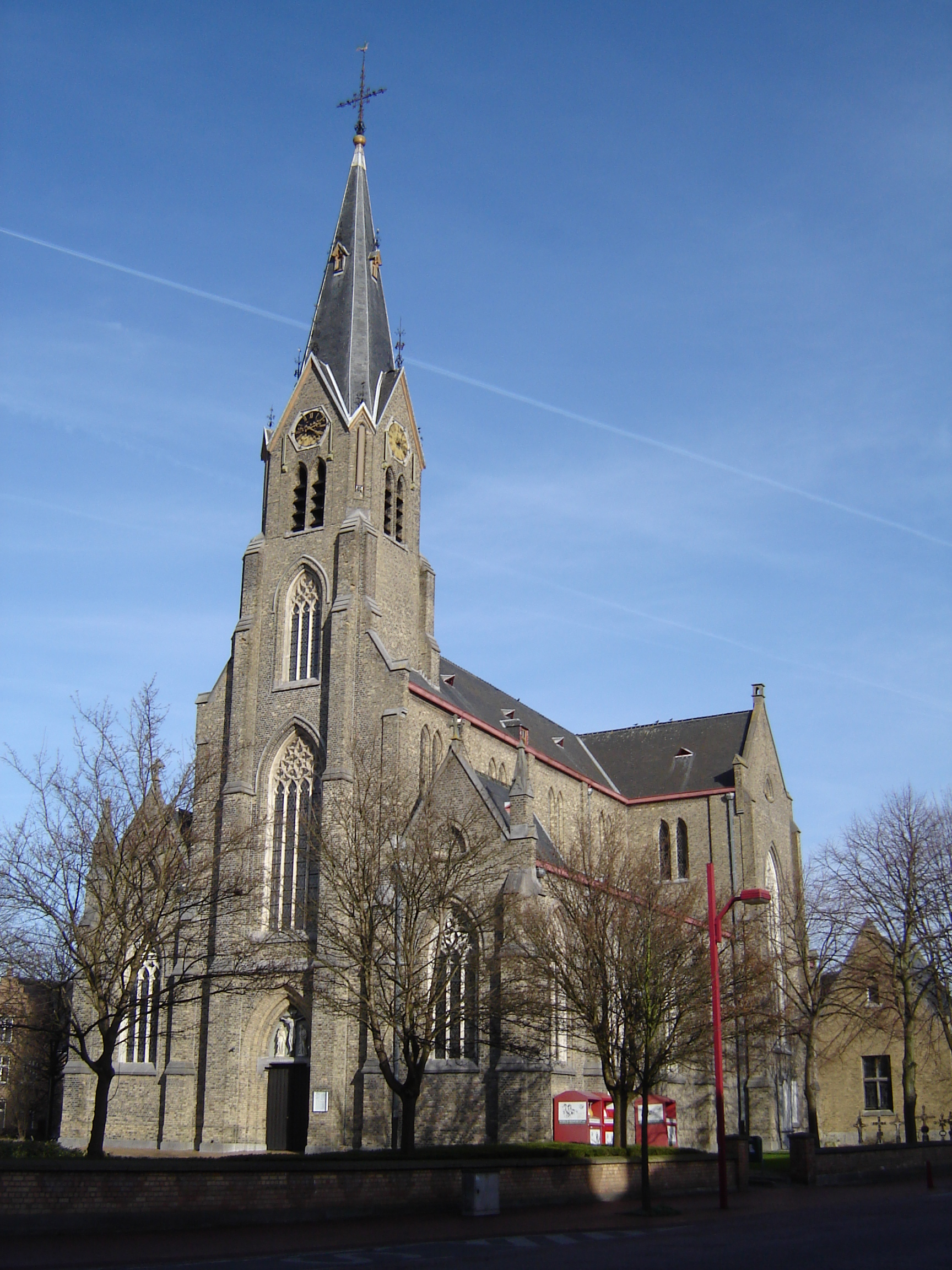 Church of the Exaltation of the Cross and Saint Joseph in Sint-Kruis. Sint-Kruis, Brugge, West Flanders, Belgium.